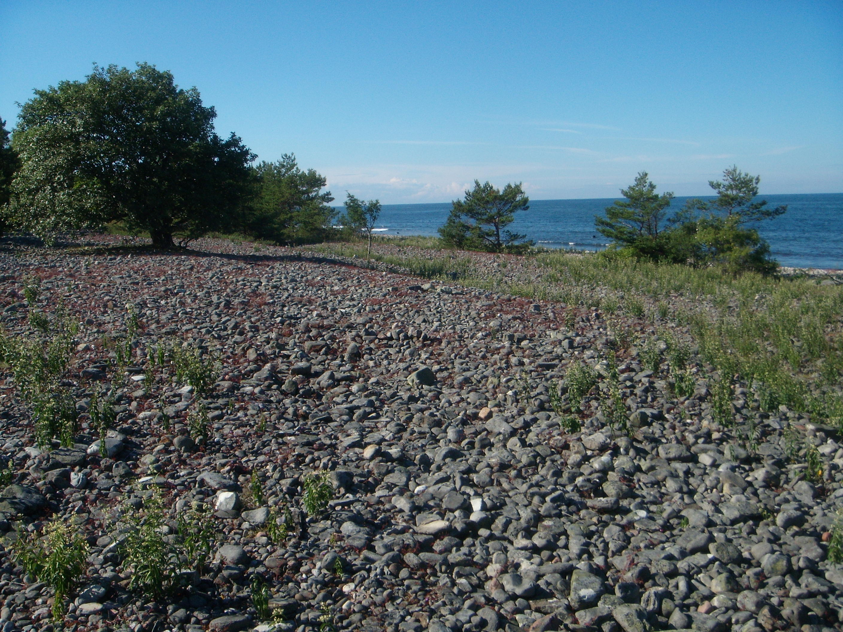 Stonelandscape.